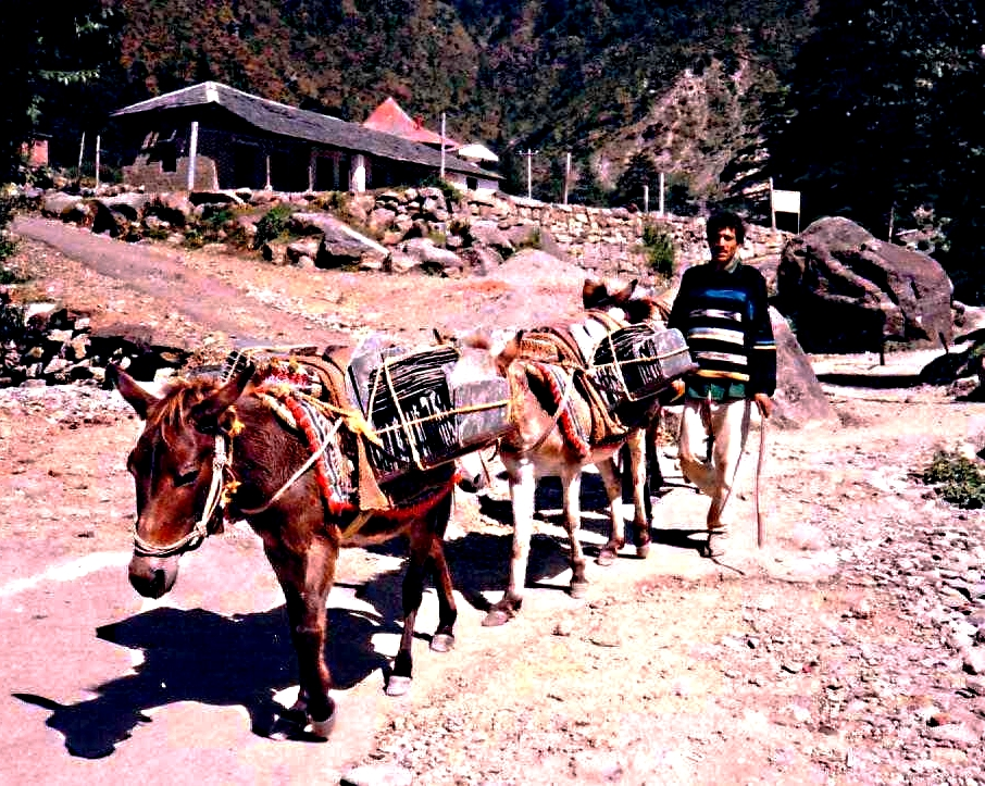 I took this photo on a trip to Dharamsala, H.P., India in 1993